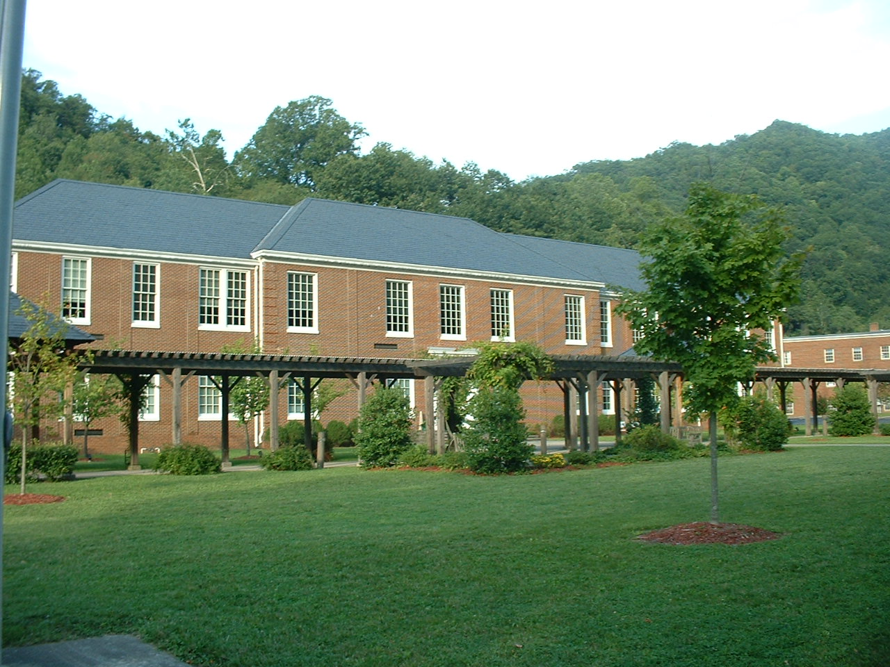 Photo of the Appalachian School of Law library.